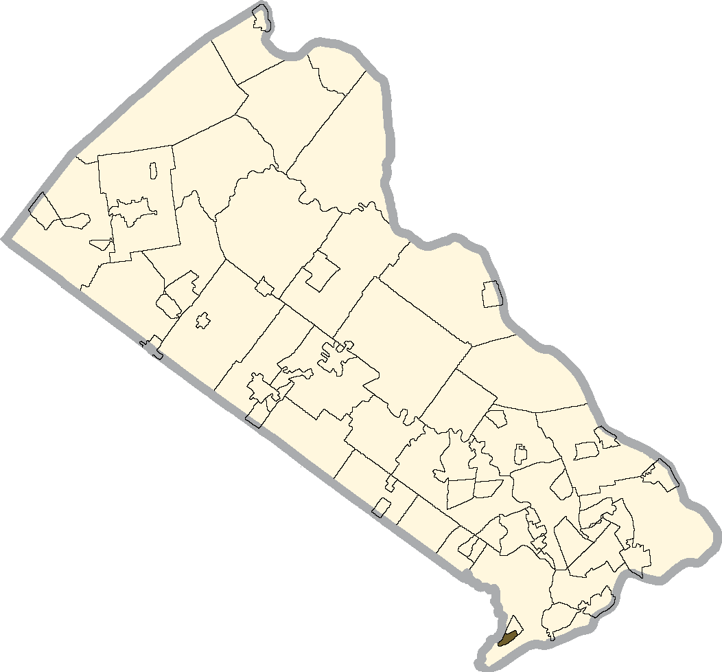 Cornwells Heights shaded on the map of Bucks county, PA.